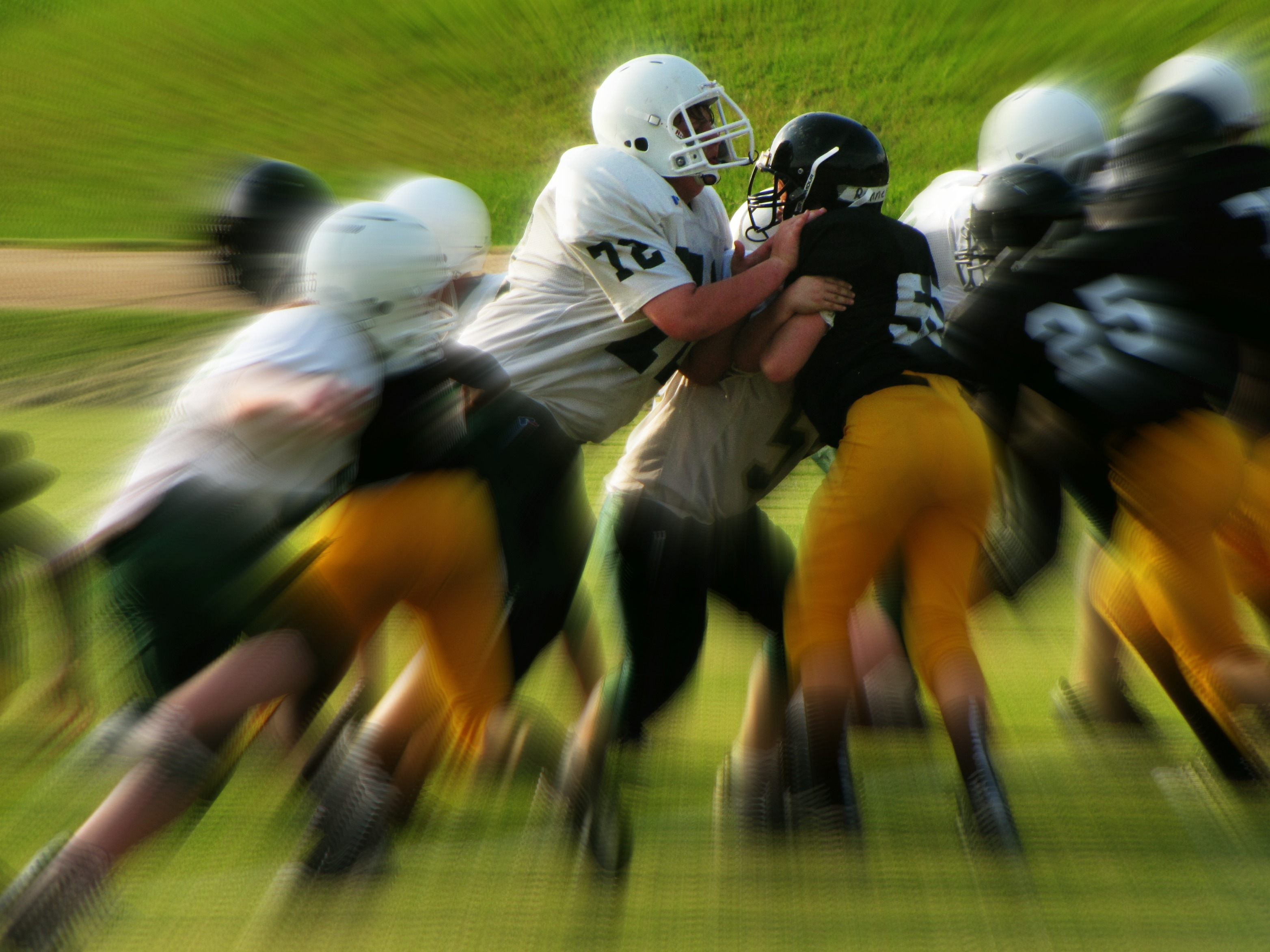 Close-up view of a play during a youth football game